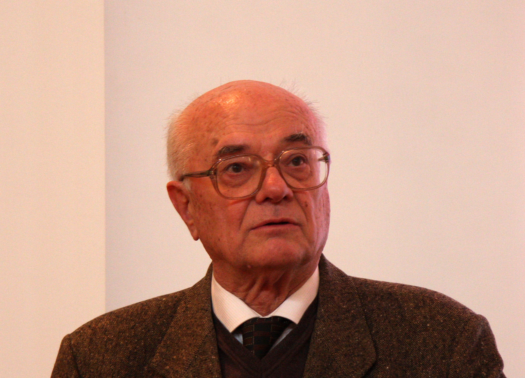 Branko Stanovnik, chemist from Slovenia.